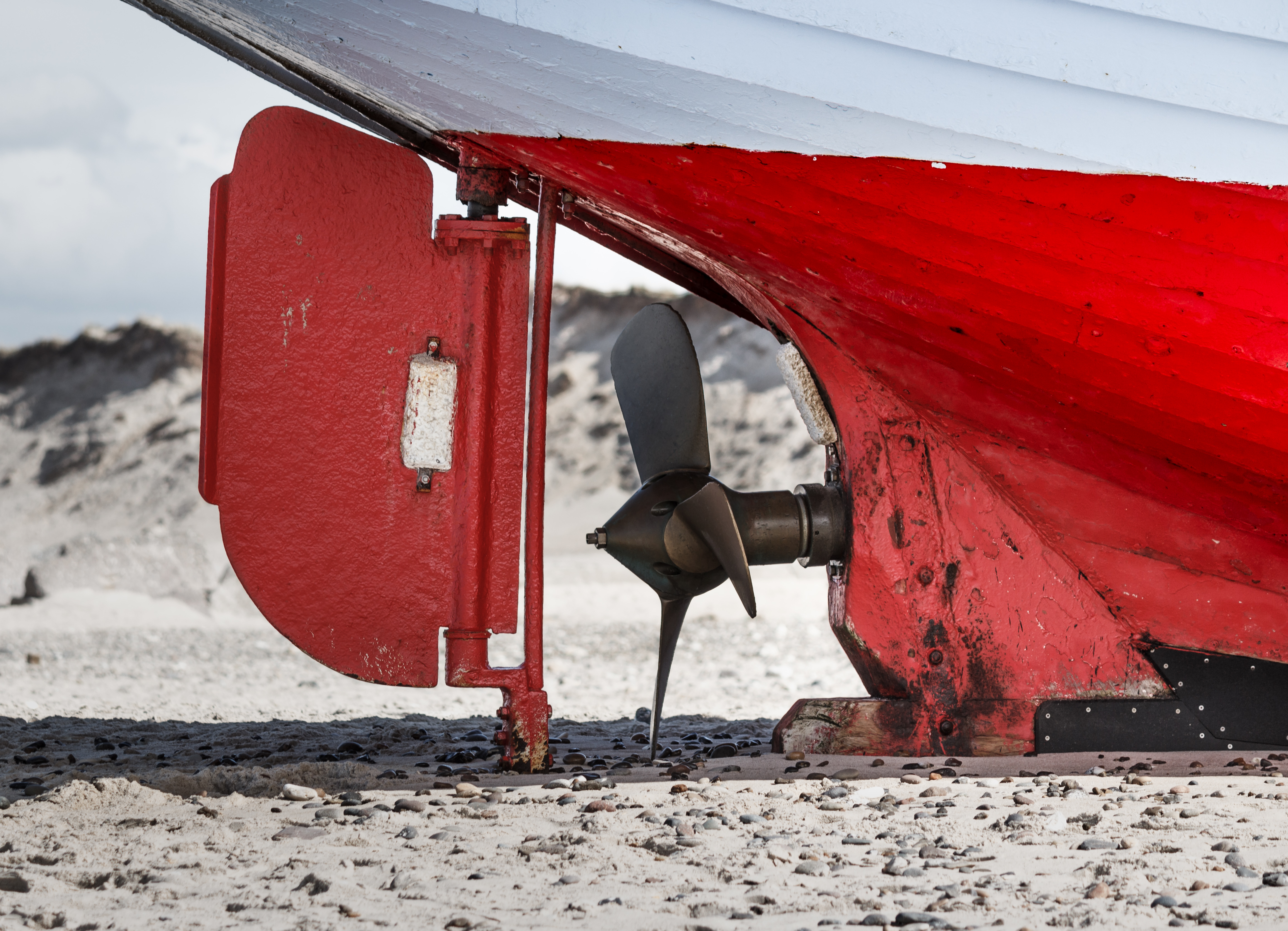 Rudder and propeller on beached fishing vessel Skagerak, Nørre Vorupør beach, Denmark.